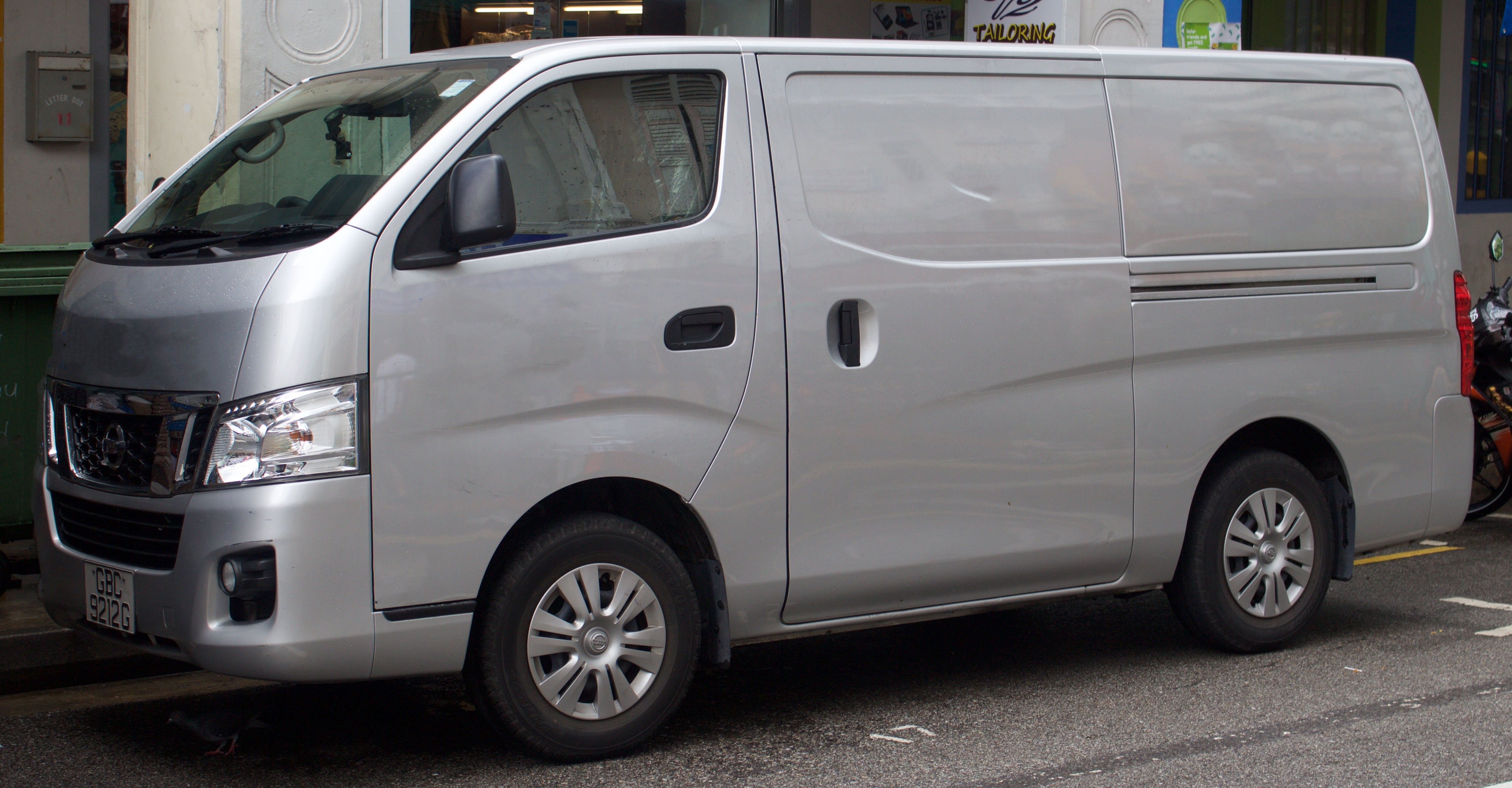 2013 Nissan NV350 (E26) 2.5 panel van. Photographed in Singapore. Vehicle registration enquiry resultsJurisdictionSingaporeRegistrationGBC9212GChassis codeJN1MC2E26Z0001563Engine codeYD25340874AYear of manufacture2013